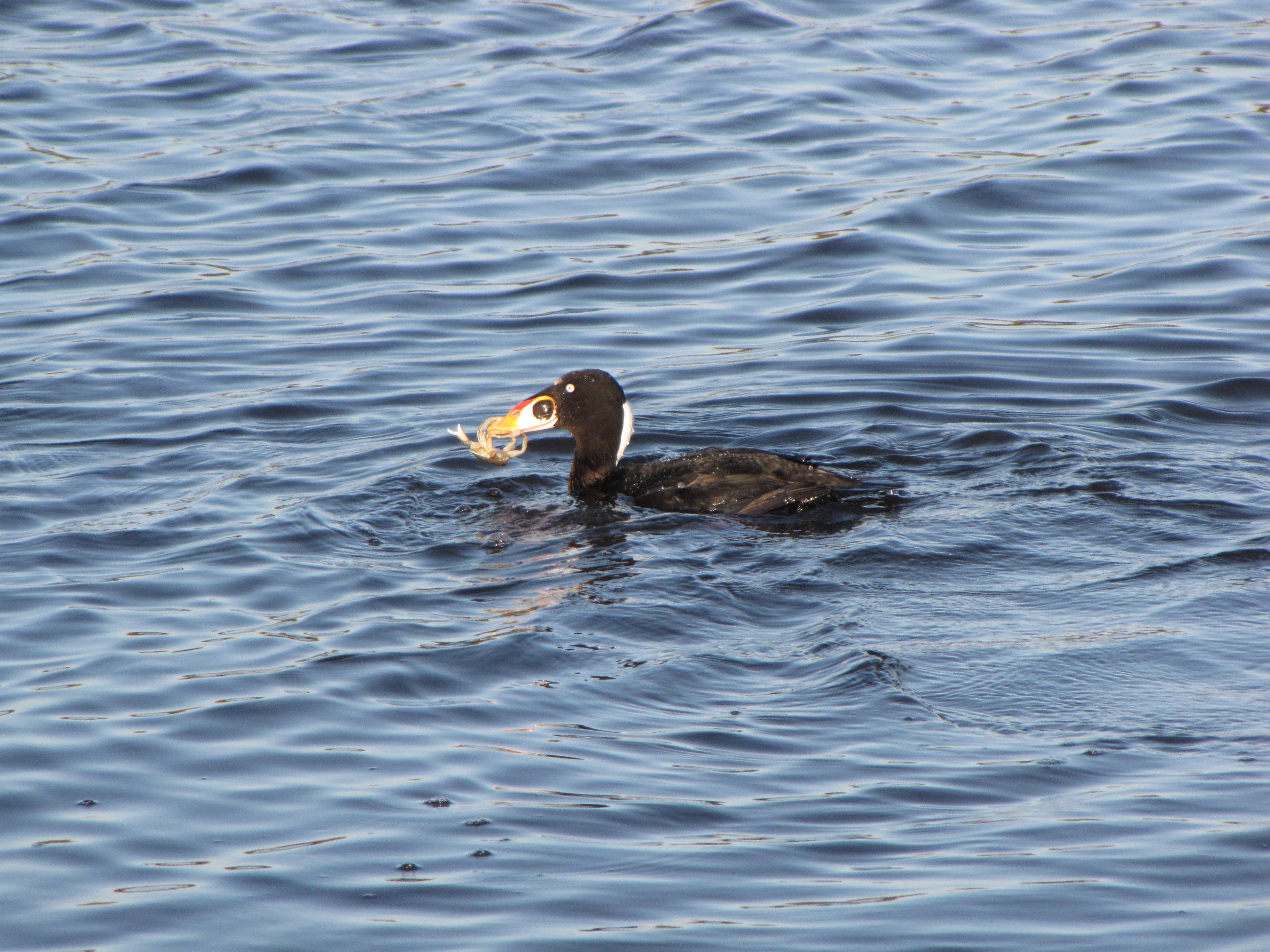 A male Surf Scoter (Melanitta perspicillata) with crab in beak on Elk River (near mouth) in Humboldt County, Calfornia.